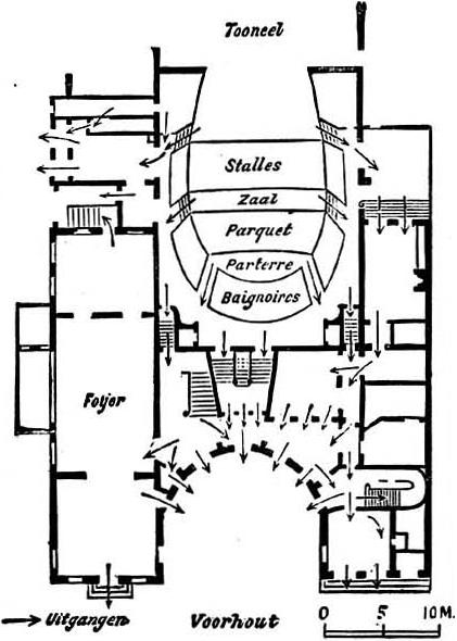 Koninklijke Schouwburg (Royal Theatre), Korte Voorhout, The Hague, plan.